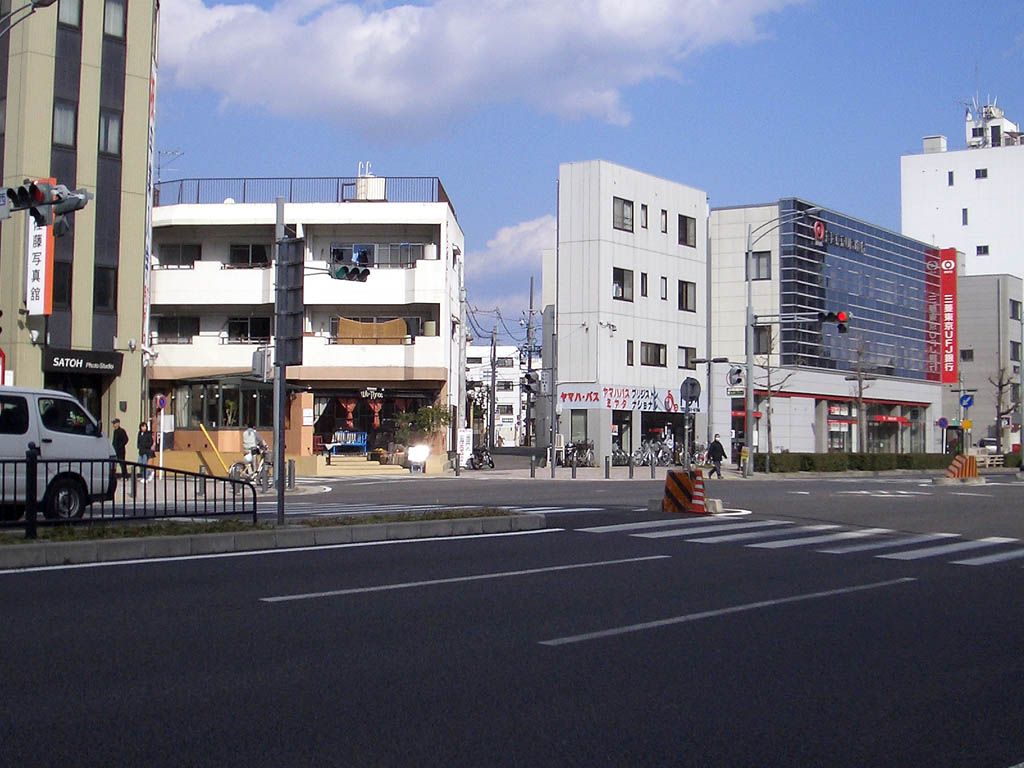 Shikannonmichi (Kakuouzan, Chikusa-ku, Nagoya)